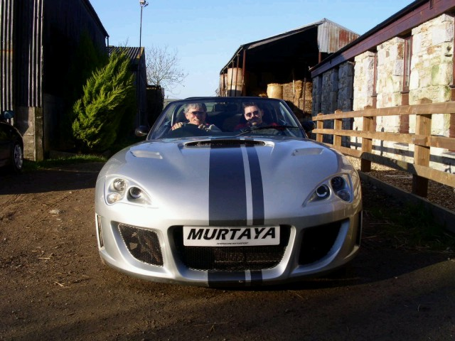 The Adrenaline Motorsport Murtaya (demo car, front). This picture was taken at the AMS shop during a customer's visit (in early 2006). This was uploaded for the Murtaya article.